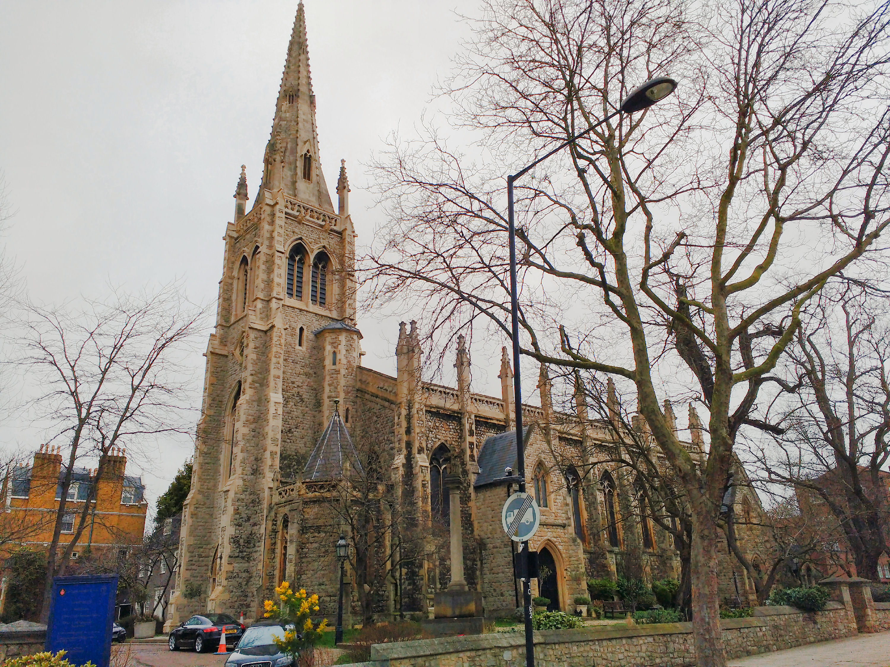 St Mark's, Hamilton Terrace, NW8. Exterior